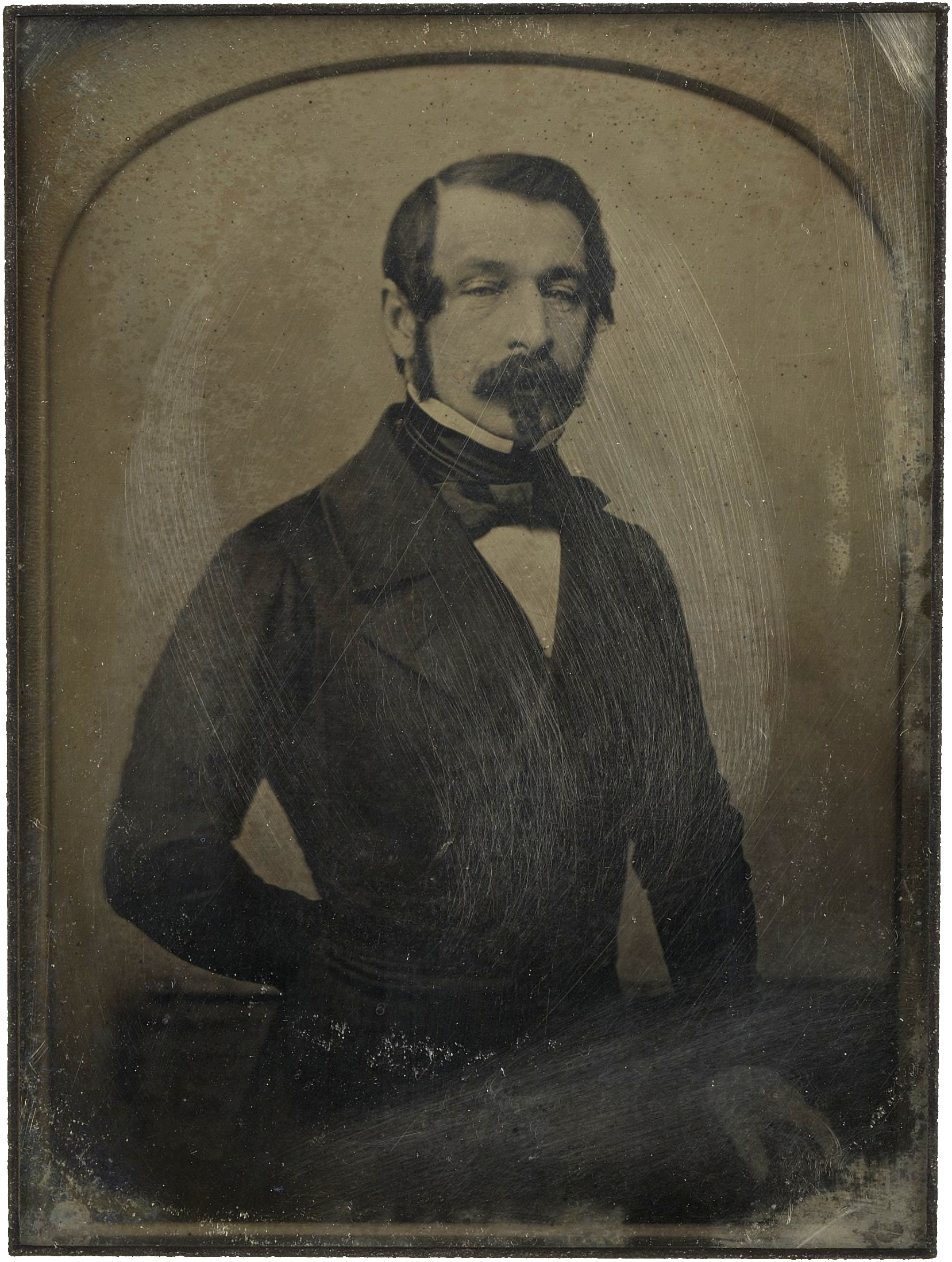 Daguerreotype portrait photograph of Napoleon III.